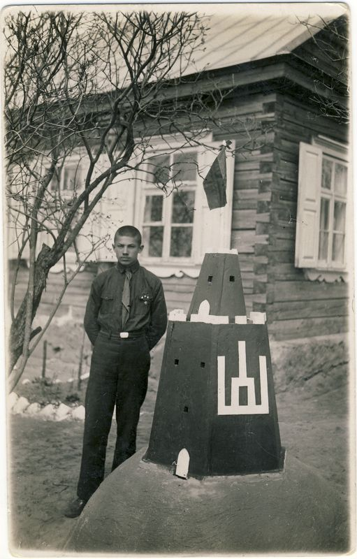 A Lithuanian scout Liudas Tarabilda with a model of the Gediminas Tower (a campaign of the Union for the Liberation of Vilnius) in the yard of his school in Anykščiai